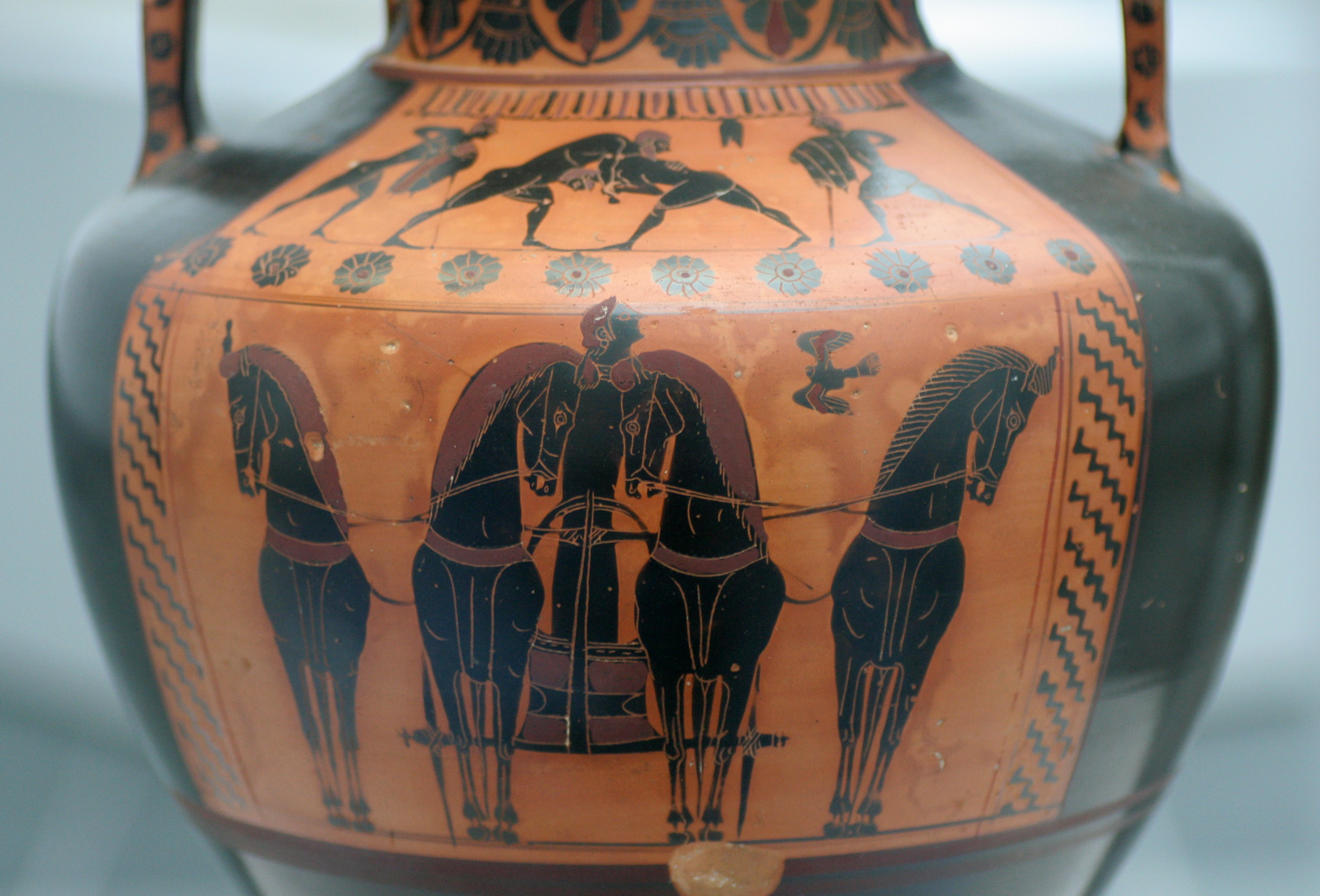 Quadriga. Side B of an Attic black-figure neck-amphora, ca. 540 BC.